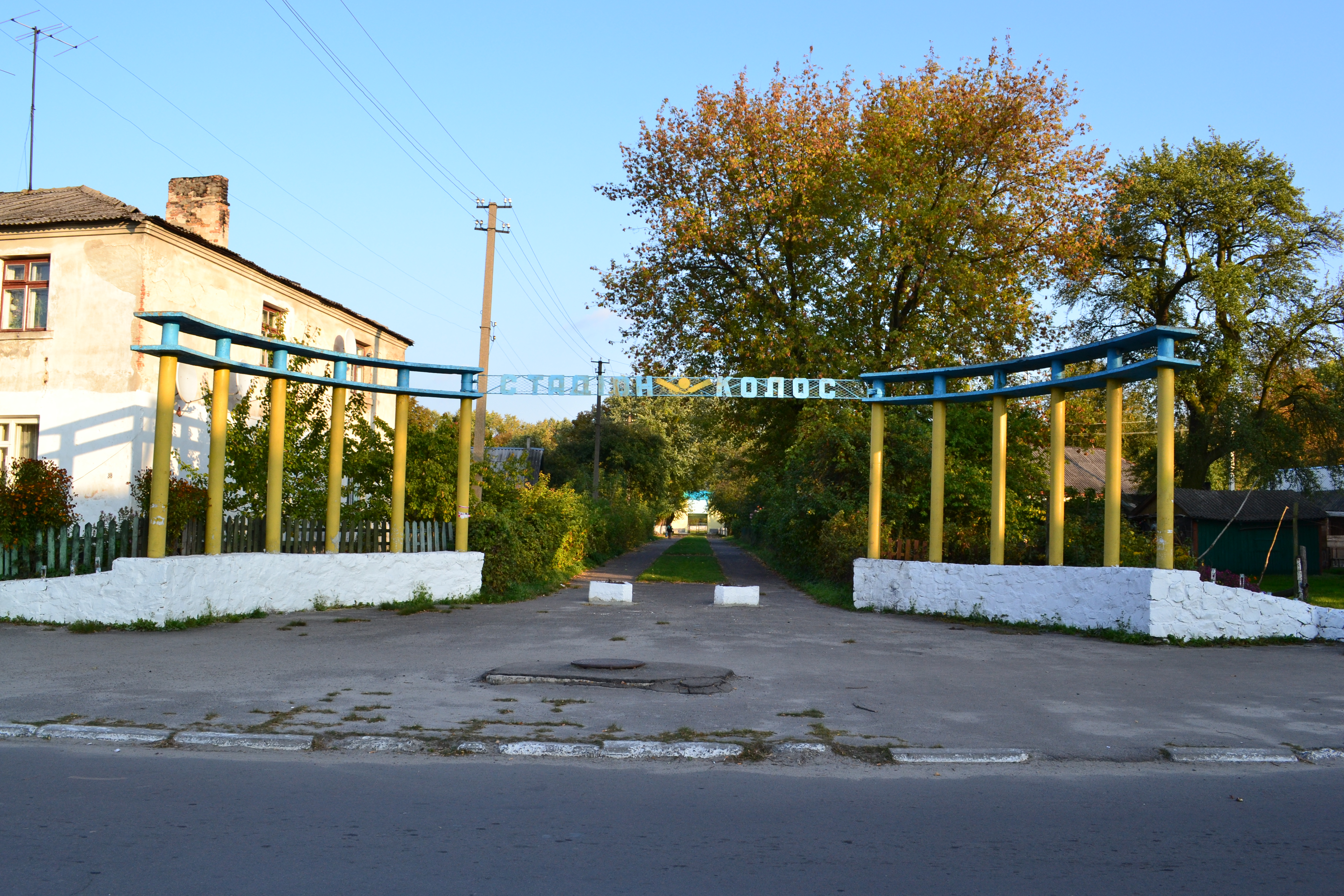 Liuboml arch stadium Kolos